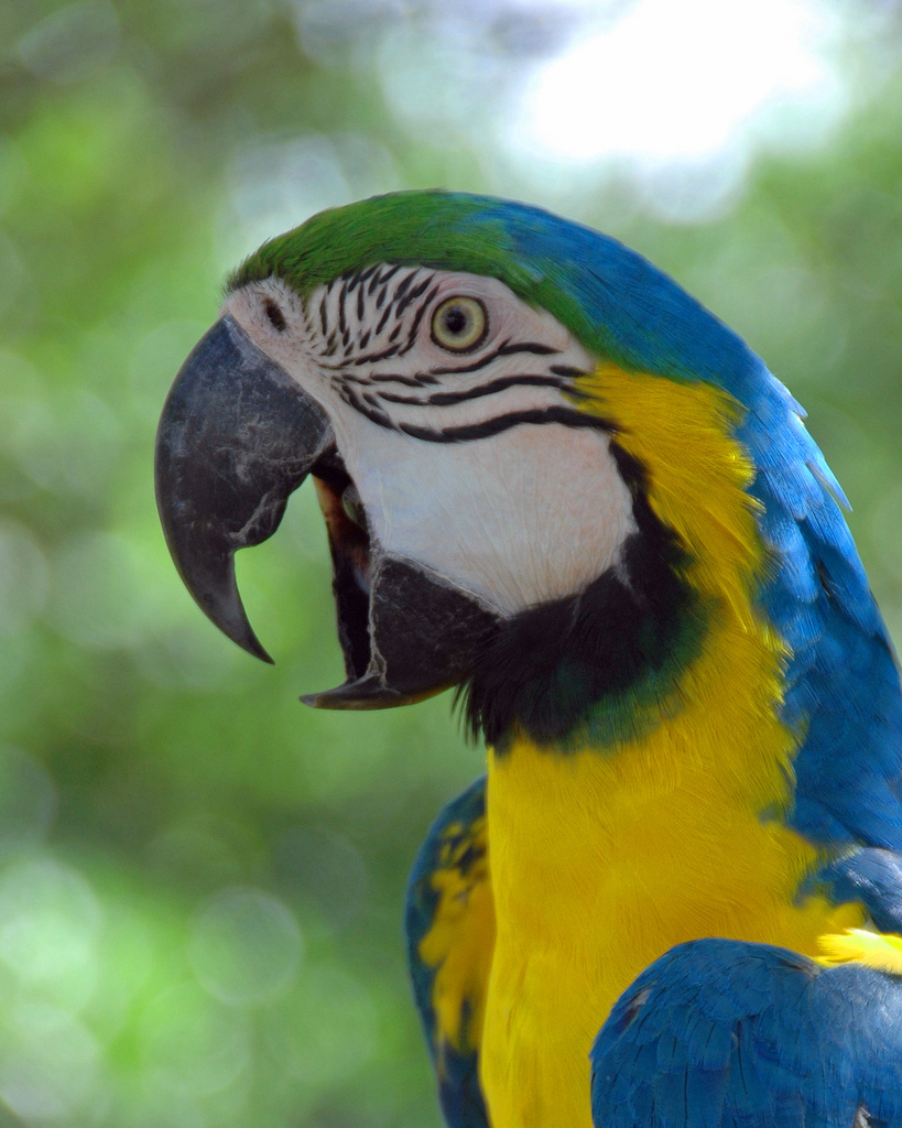 A Blue-and-yellow Macaw (also known as the Blue-and-gold Macaw) in captivity.